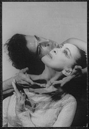 Martha Graham and Bertram Ross in “Visionary Recital”, photographed by Carl Van Vechten, 1961 June 27. Library of Congress: of Martha Graham and Bertram Ross, faces touching, in “Visionary Recital”